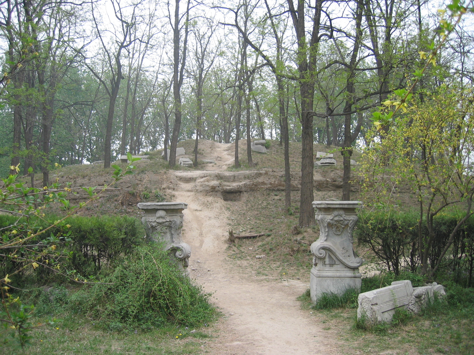 The Xian Fa Shan, a circular mount in the Xiyang Lou (Western mansions) section. The pavilion which once stood on top of the hill is completely destroyed but for some scattered mansonry and the outline of the foundations. On the grounds of the Yunamingyuan (Old Summer Palace) — in Beijing.